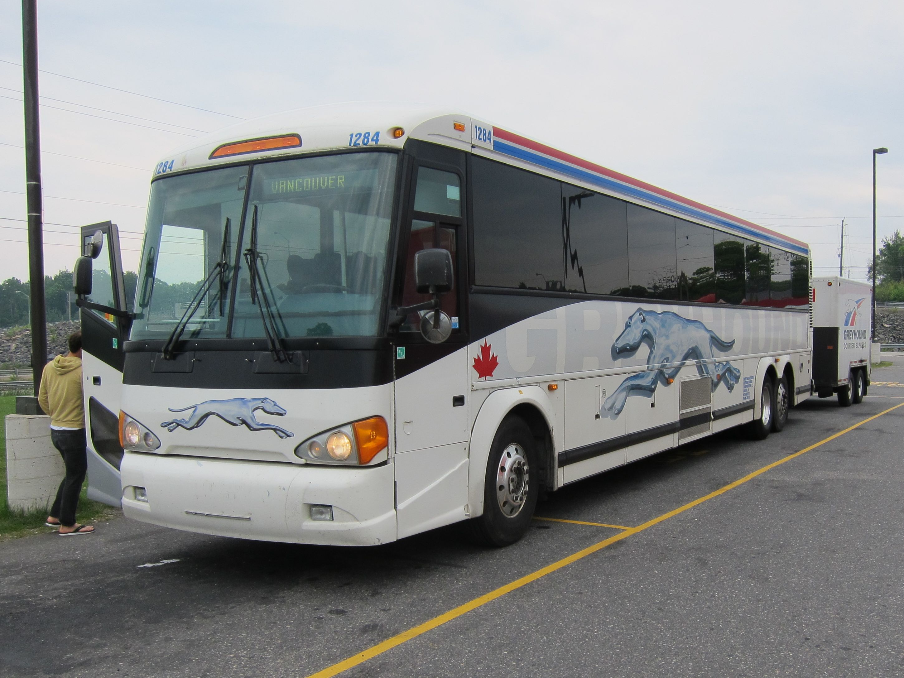 Greyhound Canada bus 1284 to Vancouver